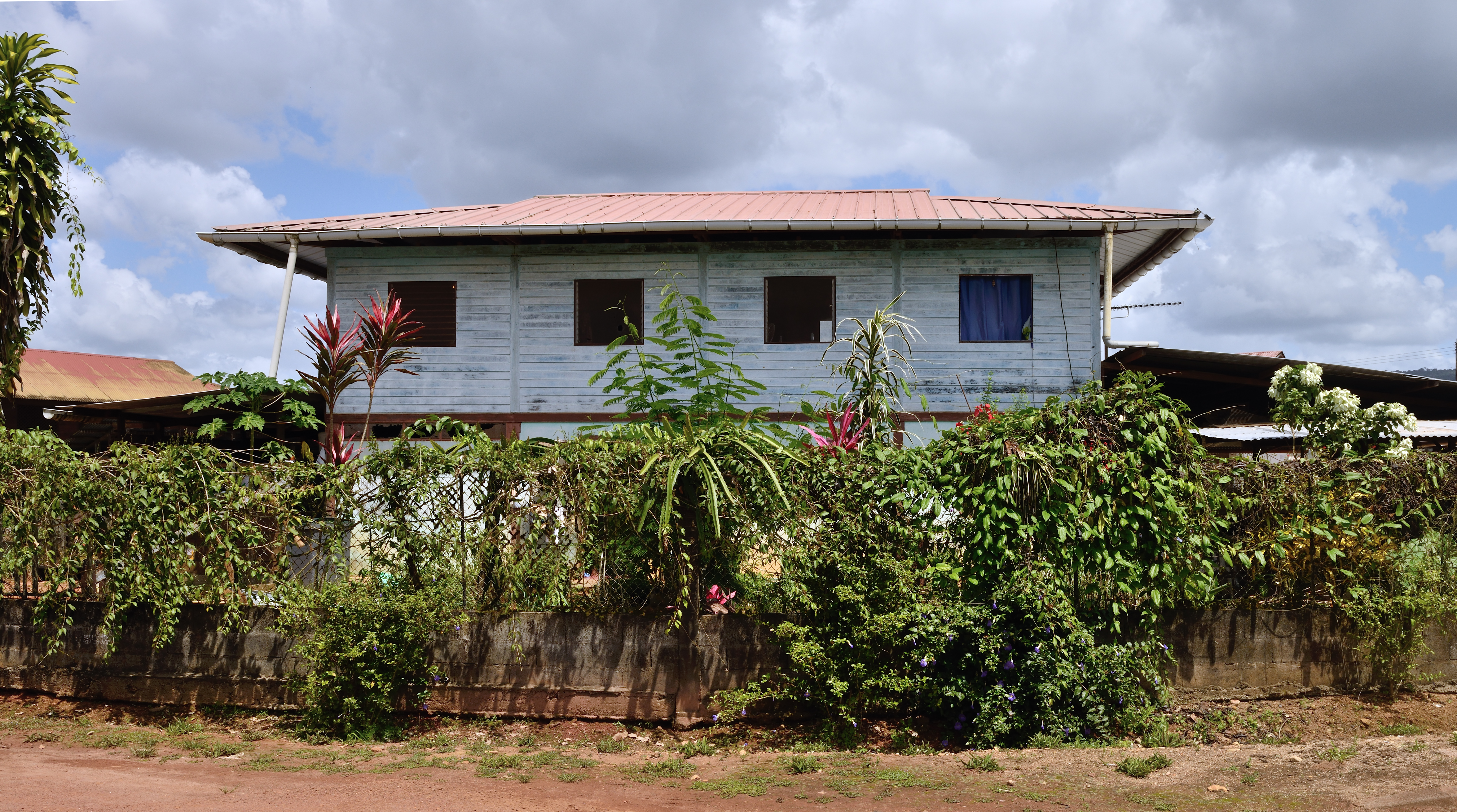 Hmong house in Cacao, French Guiana.